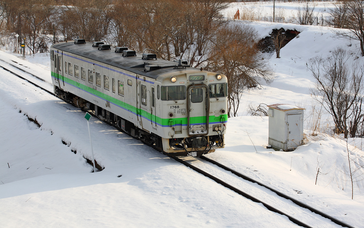 JNR Kiha 40-1700 series DMU on the Muroran Main Line for 1471D train. Kiha 40-1768, between Kuriyama and Kurioka